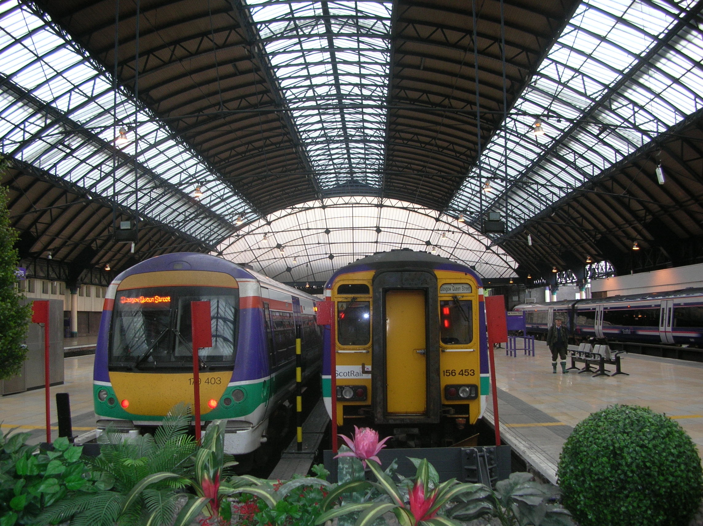 Glasgow Queen Street station in Glasgow. Image taken by Maccoinnich July 2005